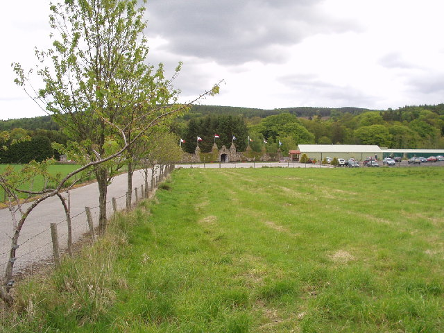 Storybook Glen Theme Park entrance Spectacular children's theme park. 100 Nursery Rhyme characters. Shop, restaurant, gift shop